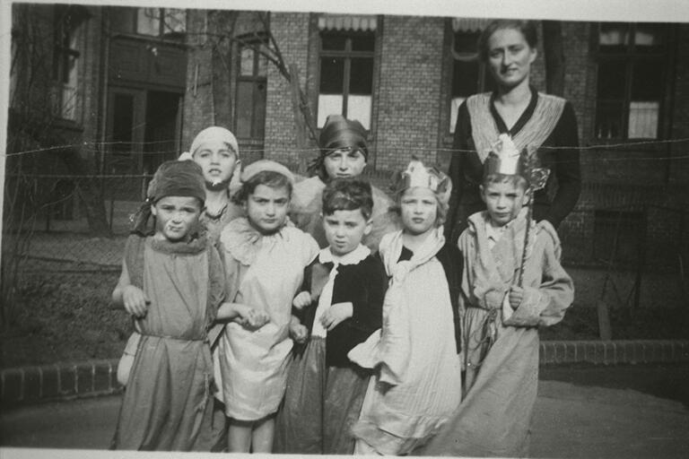 Ahawah Children's Home, Berlin; Children in Purim Costumes